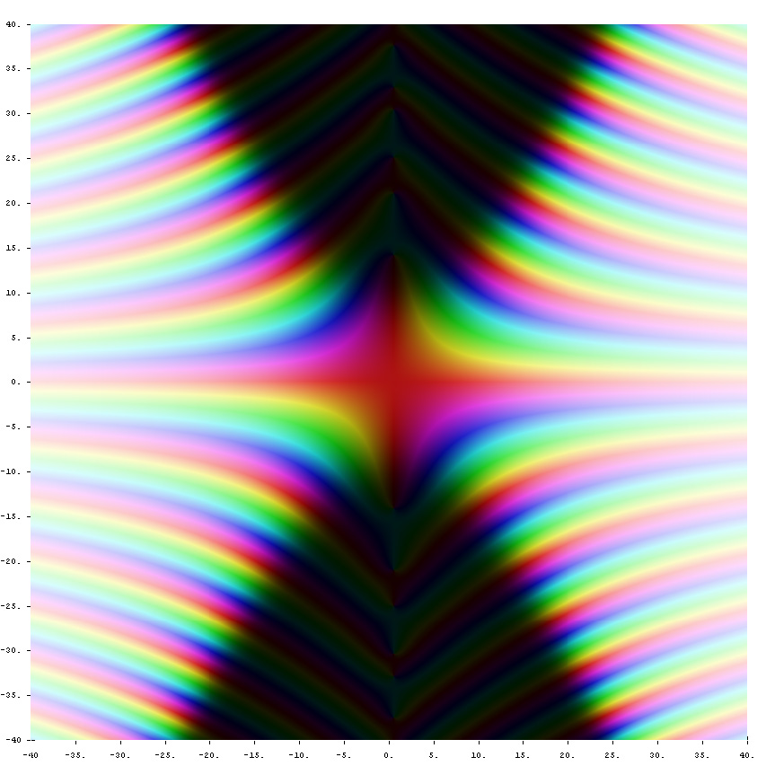 function Riemann Xi function in the complex plane